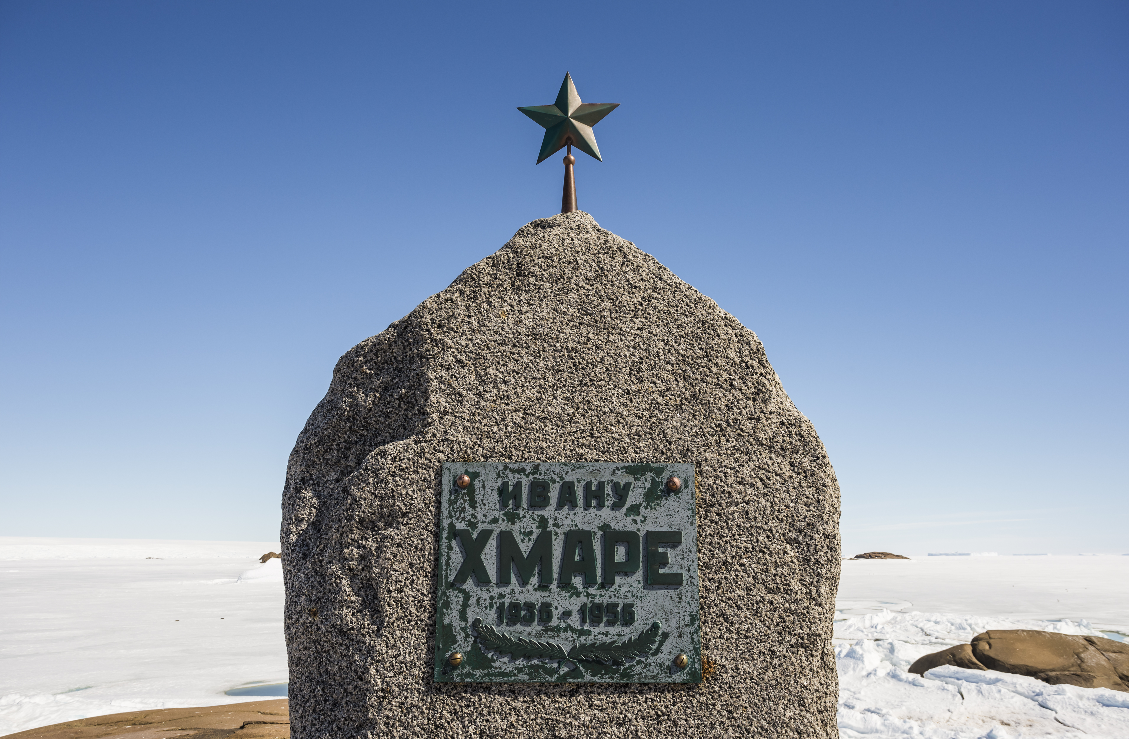 Stone with inscribed plaque erected at Buromsky island in memory of Ivan Khmara, driver-mechanic, the member of the 1st Complex Antarctic Expedition of the USSR (1st Soviet Antarctic Expedition) who perished on fast ice in the performance of duties on 21.01.1956.